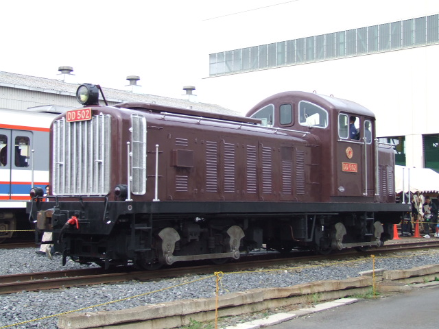 Locomotive DD502, Kanto Railway, Japan